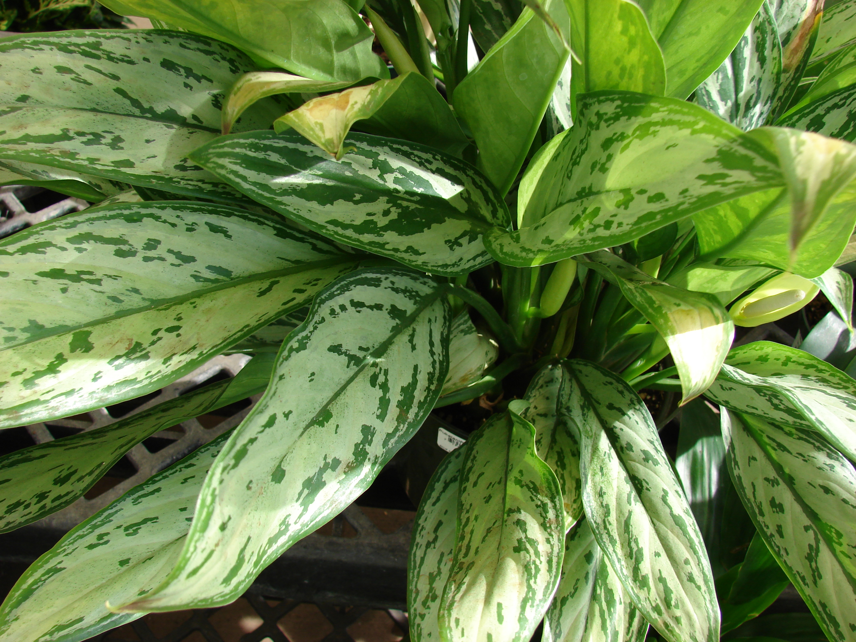 Aglaonema sp. (Cory leaves -'silver queen'). Location: Maui, Walmart Kahului